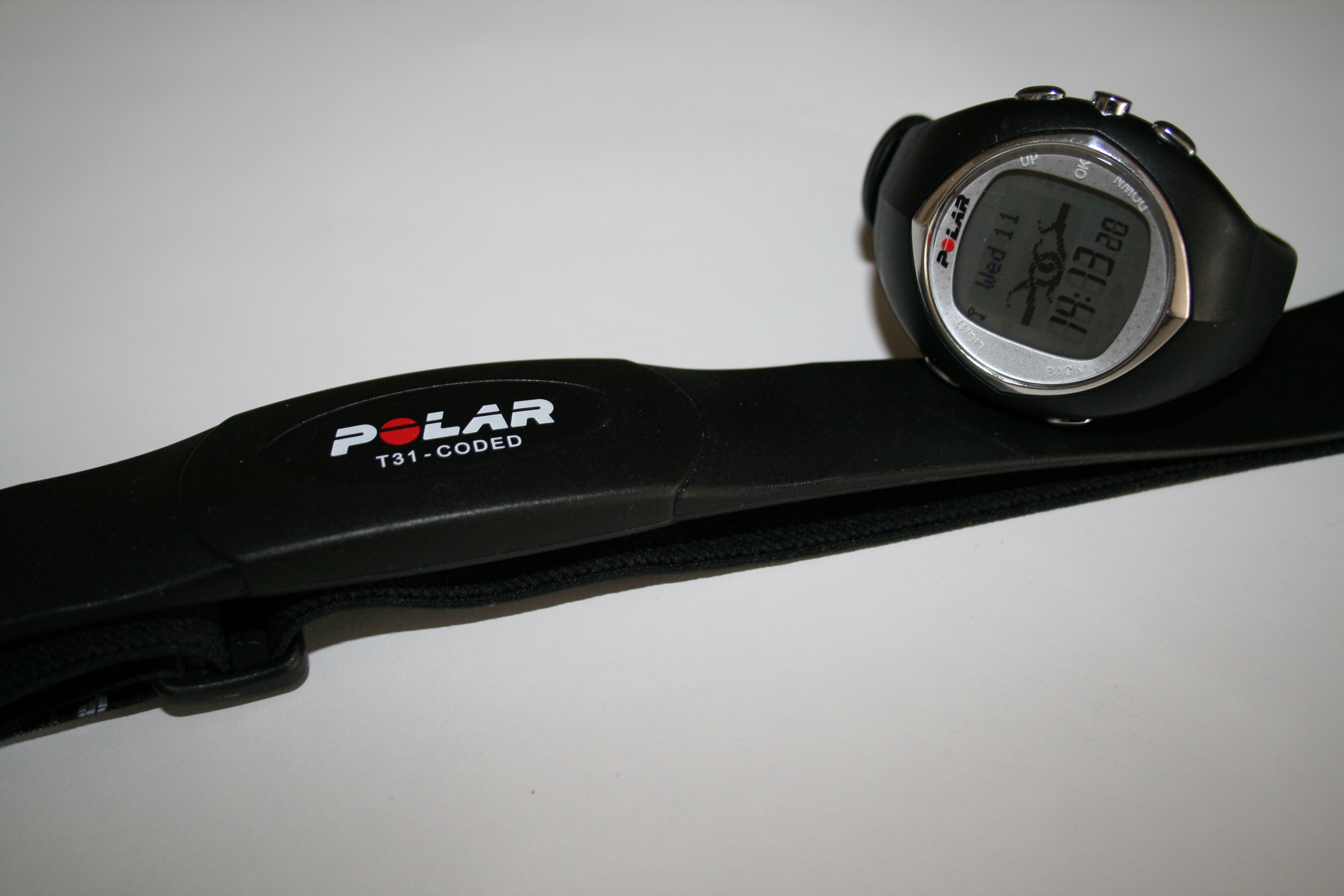 Polar F6F with T31